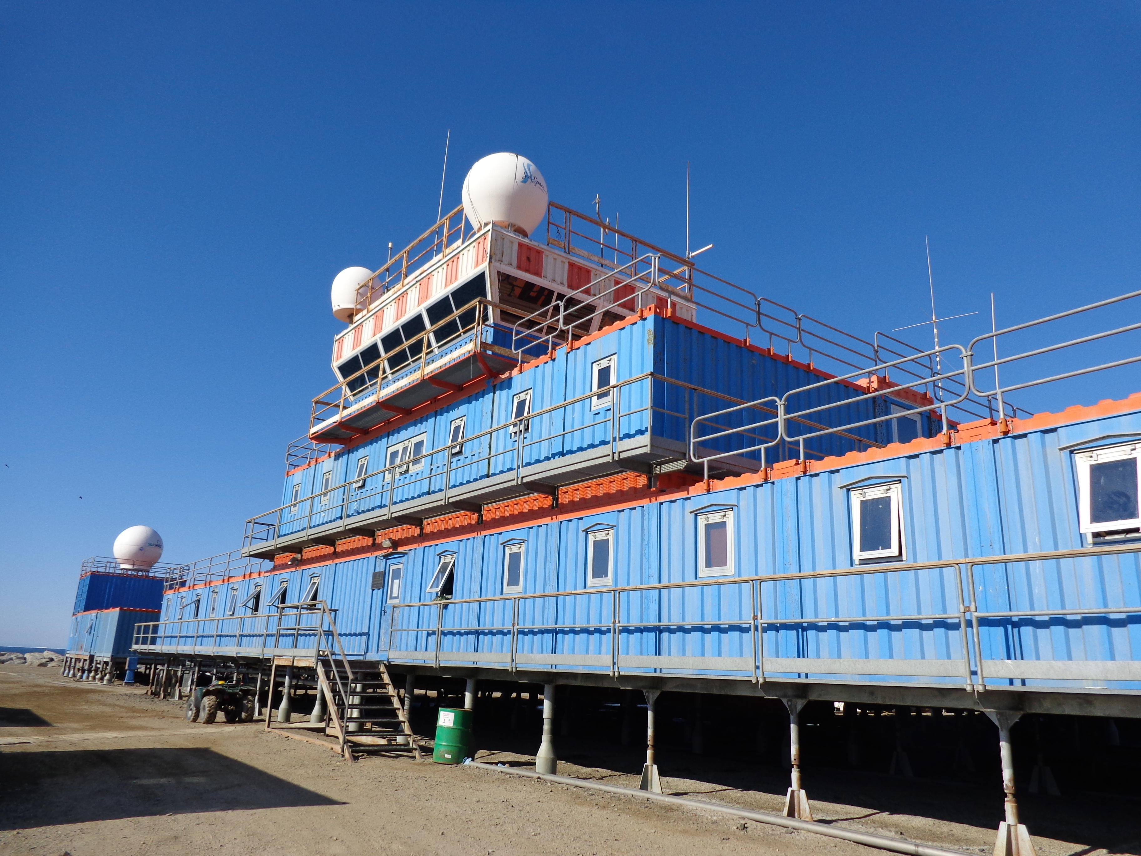 Mario Zucchelli Station, Terra Nova Bay, Antarctica